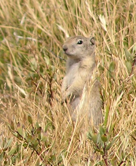 Belding's Ground Squirrel (Spermophilus beldingi) in the Sierra Nevada Mountains, California, USA. Taken in Tuolumne Meadows in Yosemite National Park.